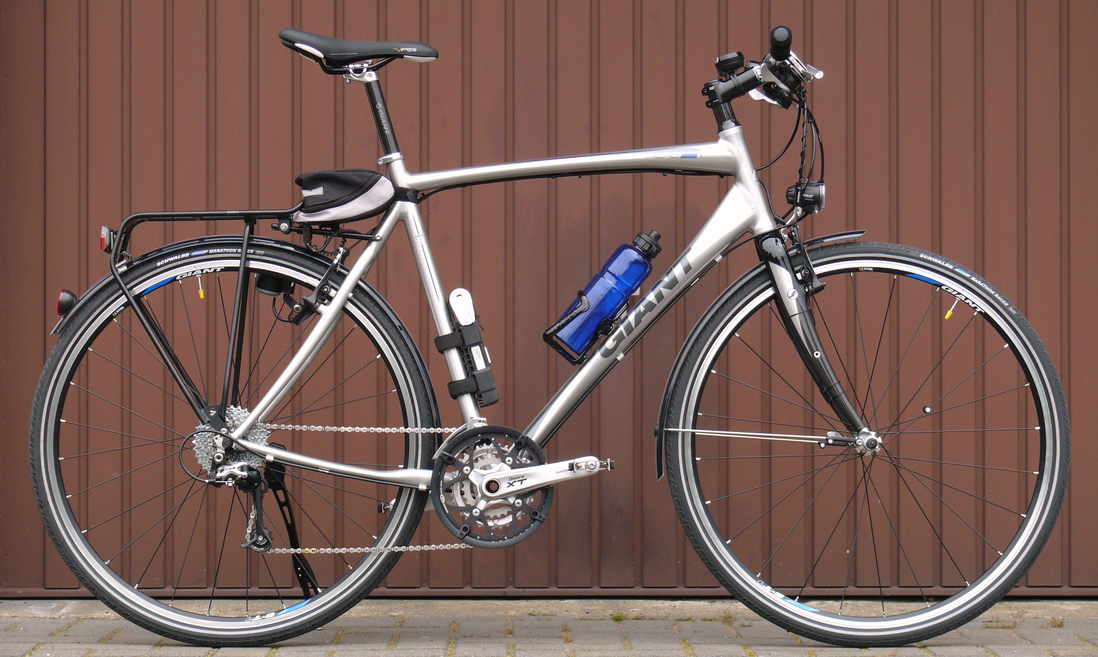 hybrid bicycle, lightweight construction.